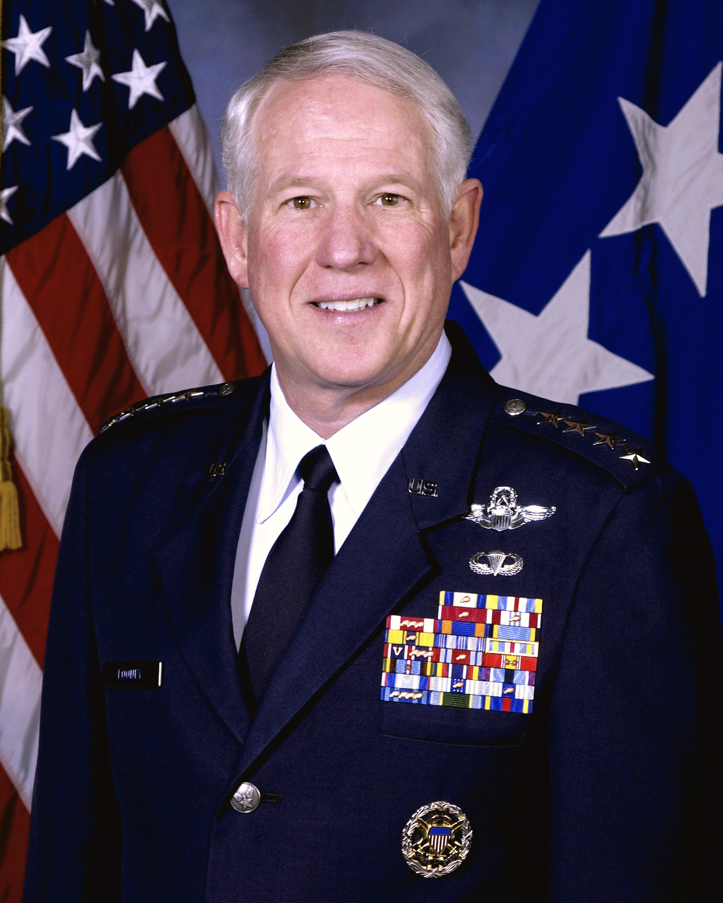 Gen. William Looney USAF from [1]